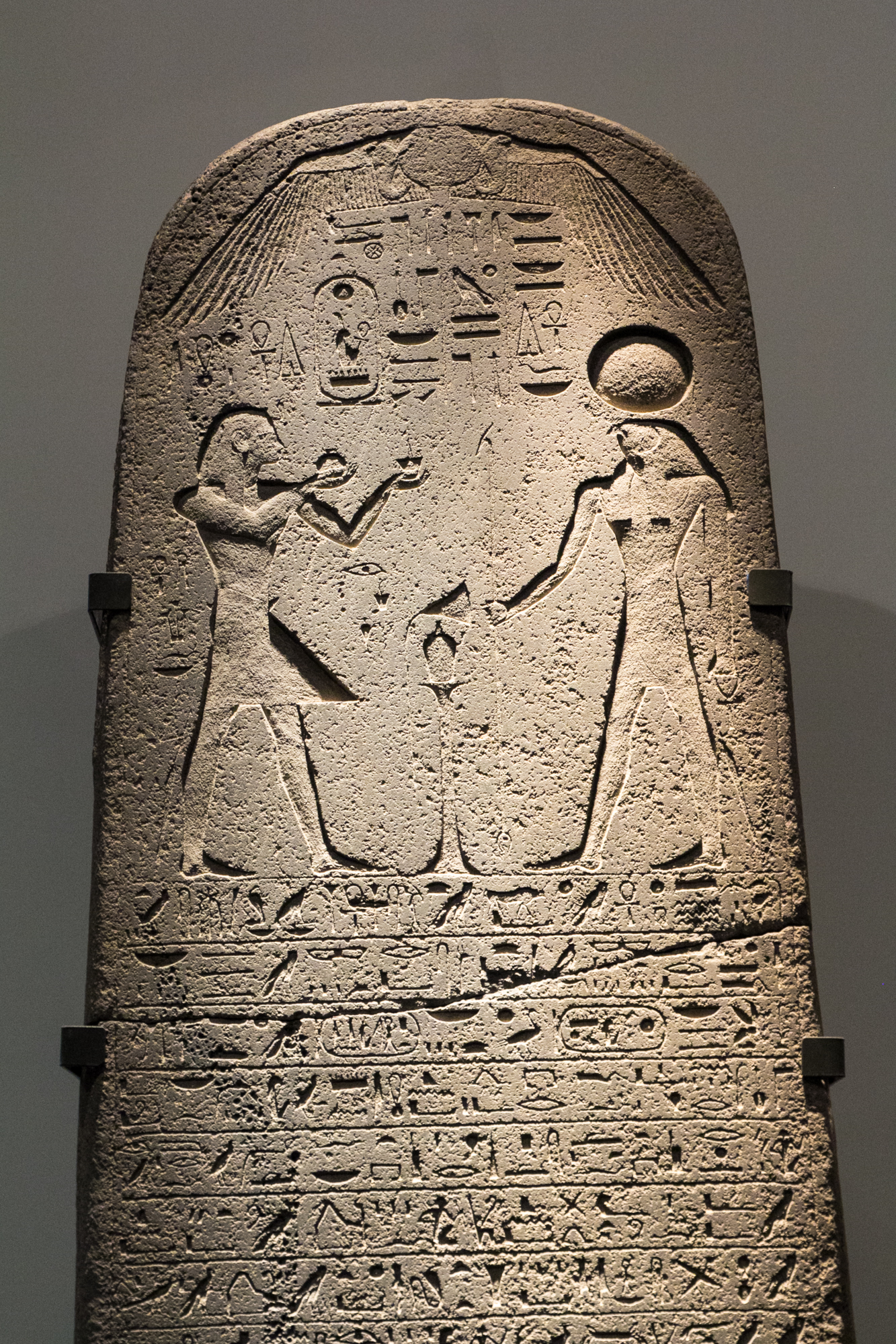 Pharaoh in Canaan: The Untold Story - Stele of Seti I, commemorating a successful military campaign against rebellious towns near Beth Shean. 1295BC, Beth Shean.